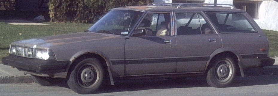 1983-1984 Toyota Cressida photographed in Montreal, Quebec, Canada.